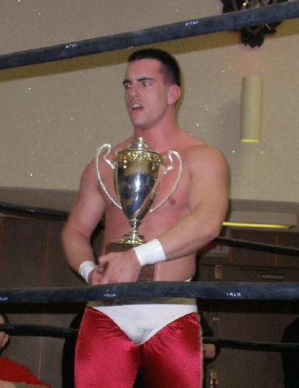 Professional wrestler Max Boyer at the Chikara King of Trios event, holding the Young Lions Cup. Camera: Olympus SP320 License on Flickr (2011-01-28): CC-BY-SA-2.0 Flickr tags: Chikara, King of Trios, The Patriot, The Iron Saints, Mike Kaz, Indy Wrestling